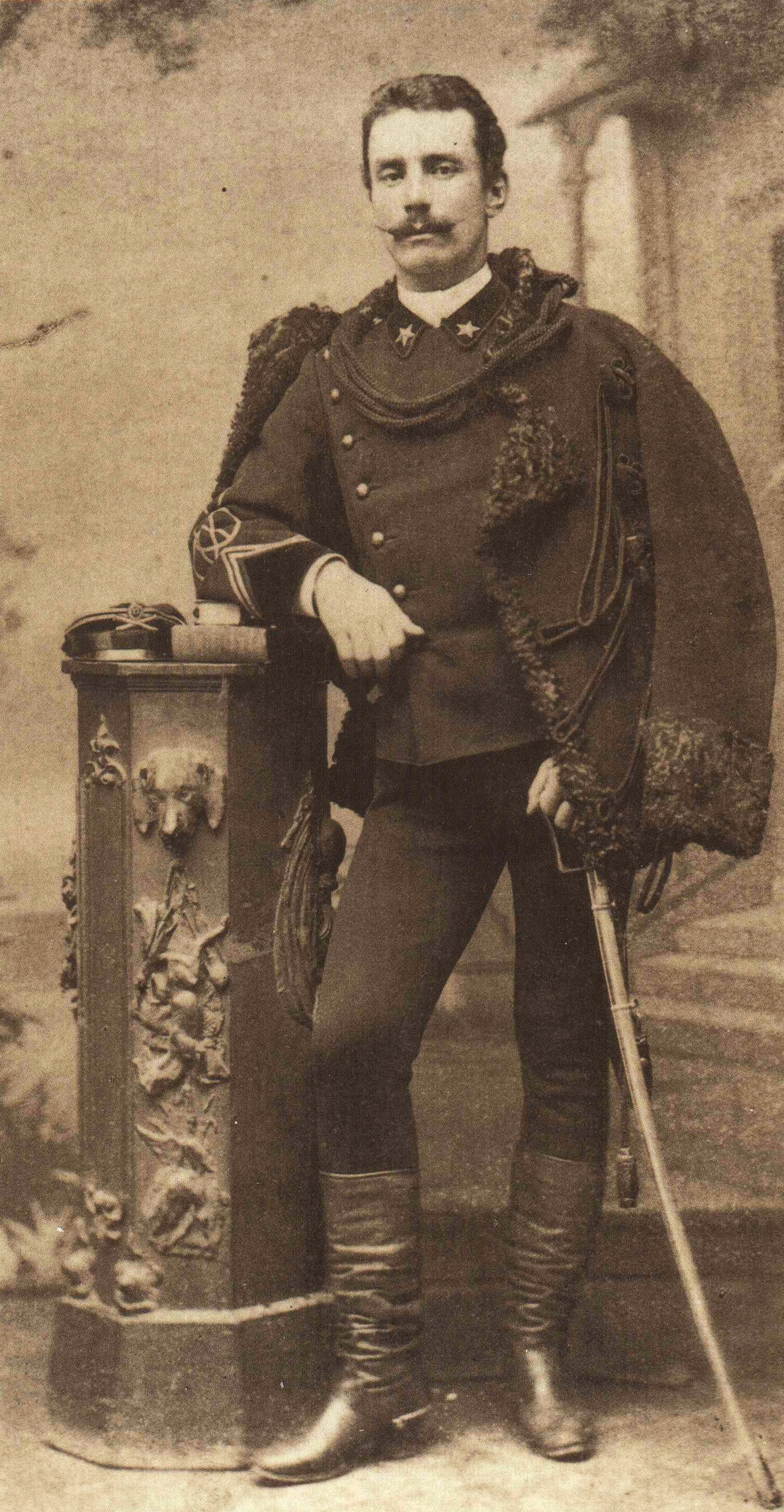 Vittorio Bottego (1860-1897), Italian explorer from Parma.